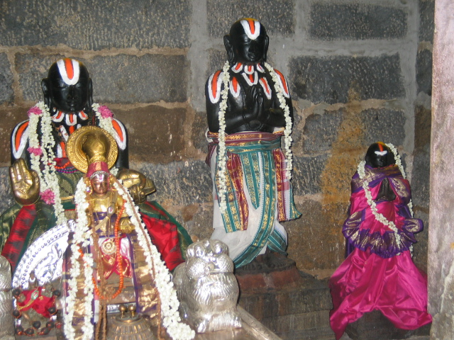 Sri Lakshmi Kumara Thatha Desikan